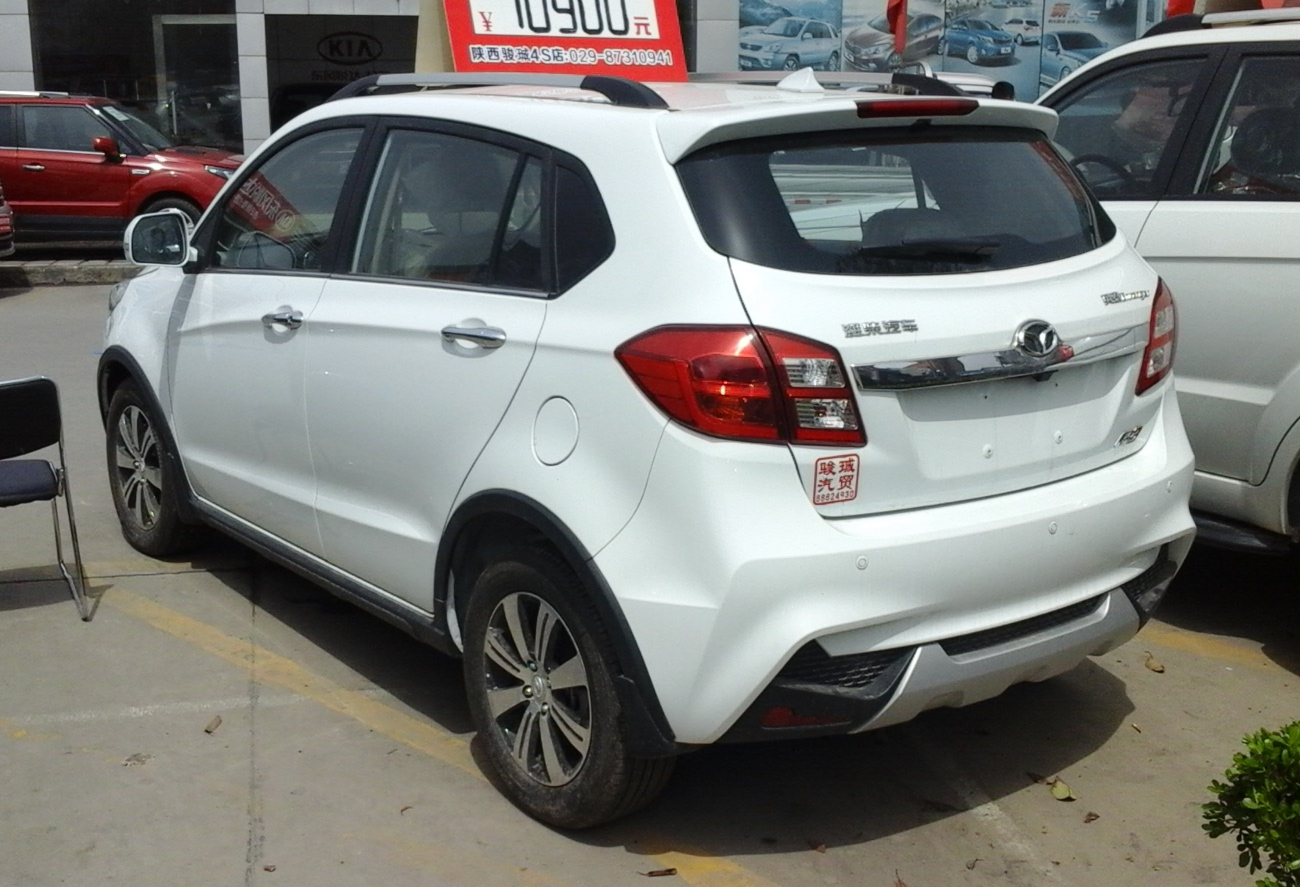 Enranger G3 photographed in Xi'an, Shaanxi province, China.